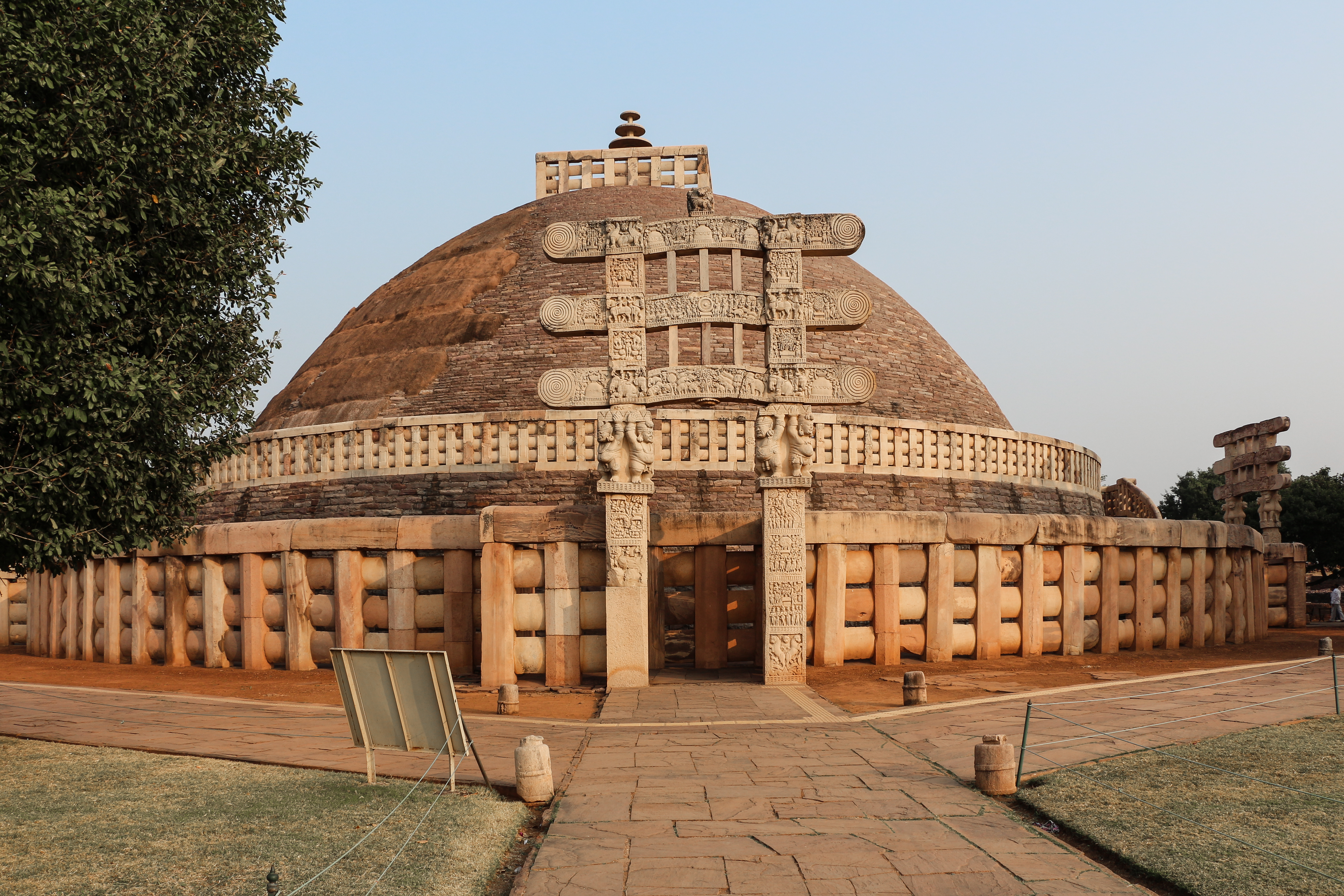 West torana, Stupa 1, Sanchi, India